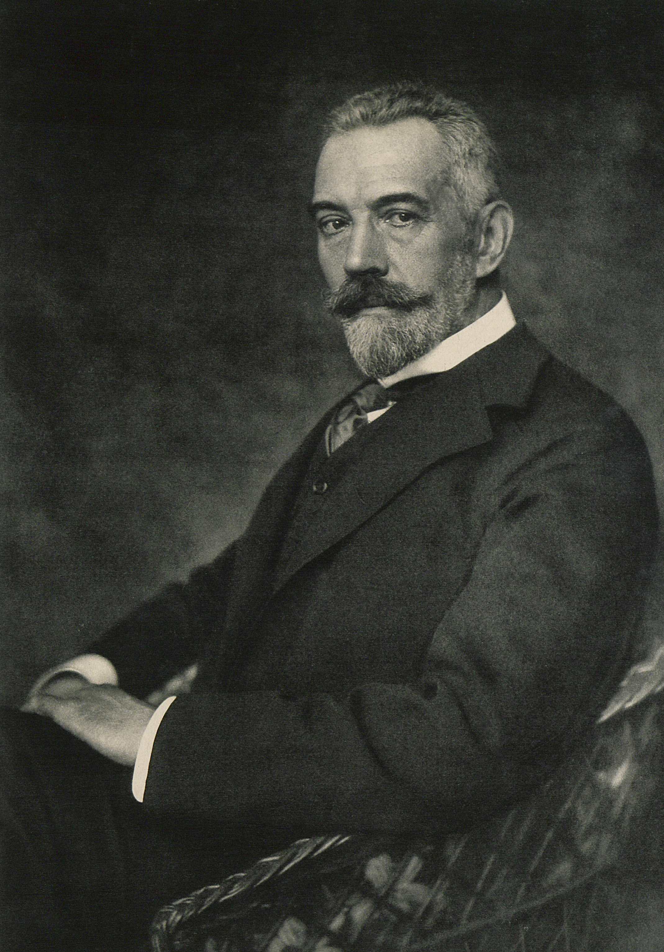 Theobald von Bethmann Hollweg by E. Bieber Title: Men around the Kaiser; the makers of modern Germany Year: 1913 (1910s) Authors: Wile, Frederic William, 1873-1941 Subjects: William II, German Emperor, 1859-1941 Germany -- Biography Germany -- Politics and government 1888-1918 Germany -- Intellectual life Publisher: Philadelphia, Lippincott Text Appearing Before Image: n » o s o J » Text Appearing After Image: Hofplwtograph\ (E. Bieber, Berlin.